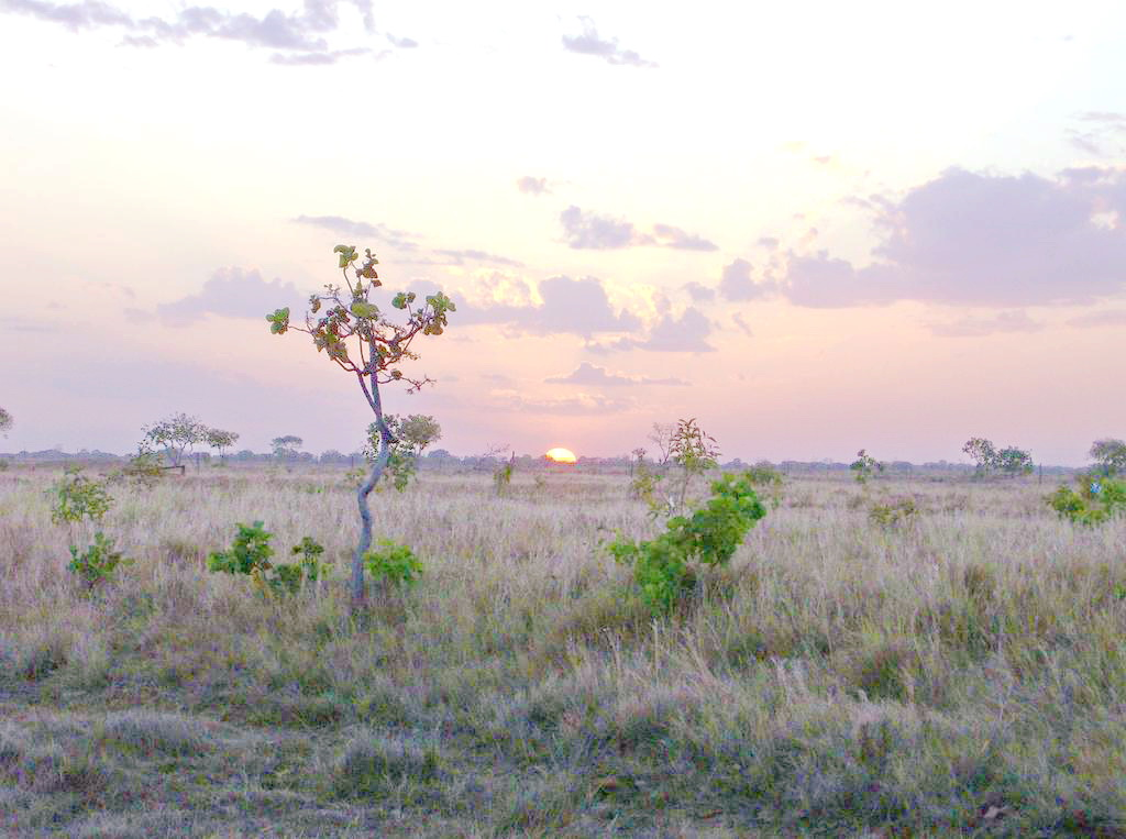 Sunset at the central plains (llanos), Guárico state, Venezuela